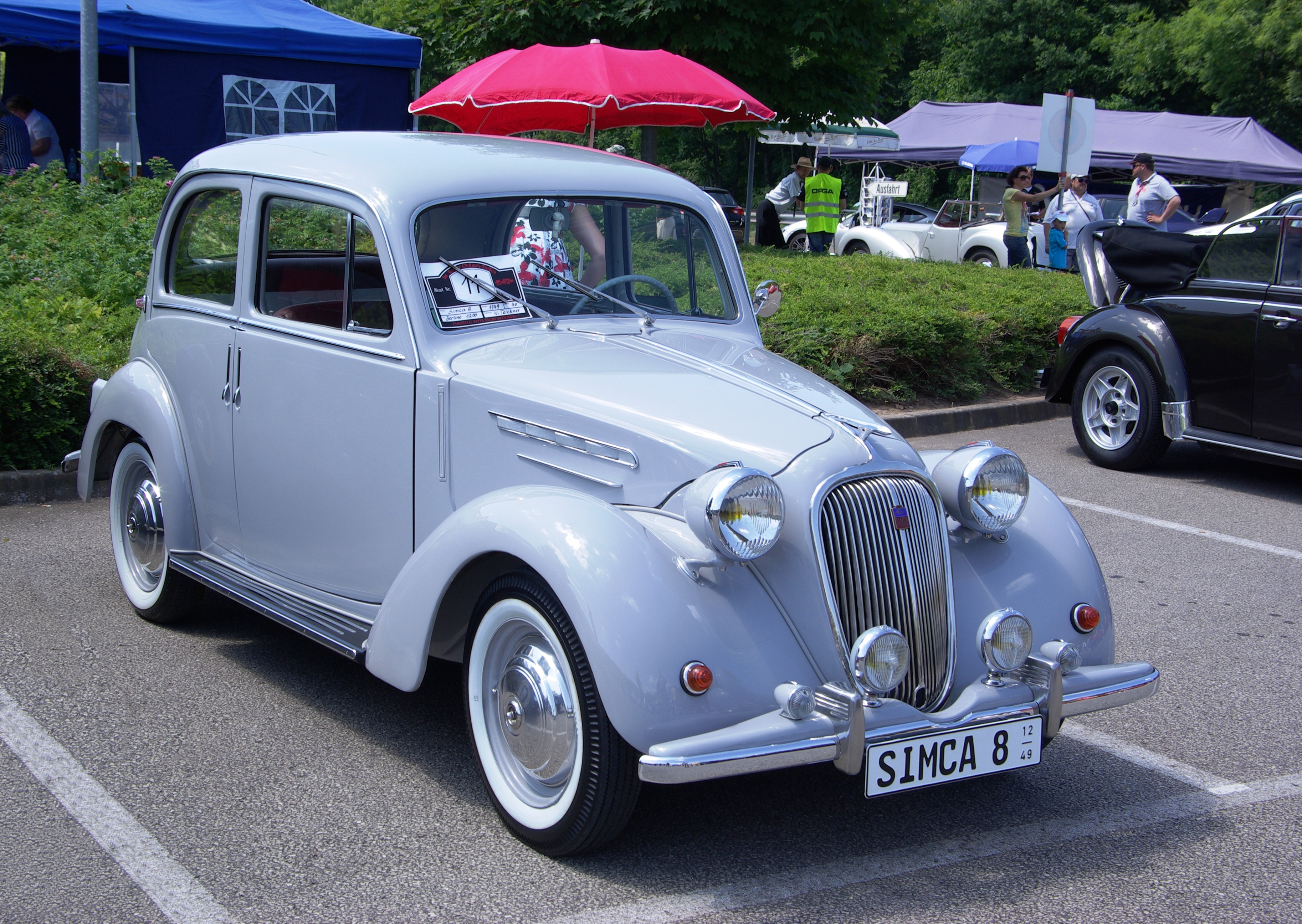 Simca 8 at Internationales Oldtimer-Treffen, Konz near Trier/Treves